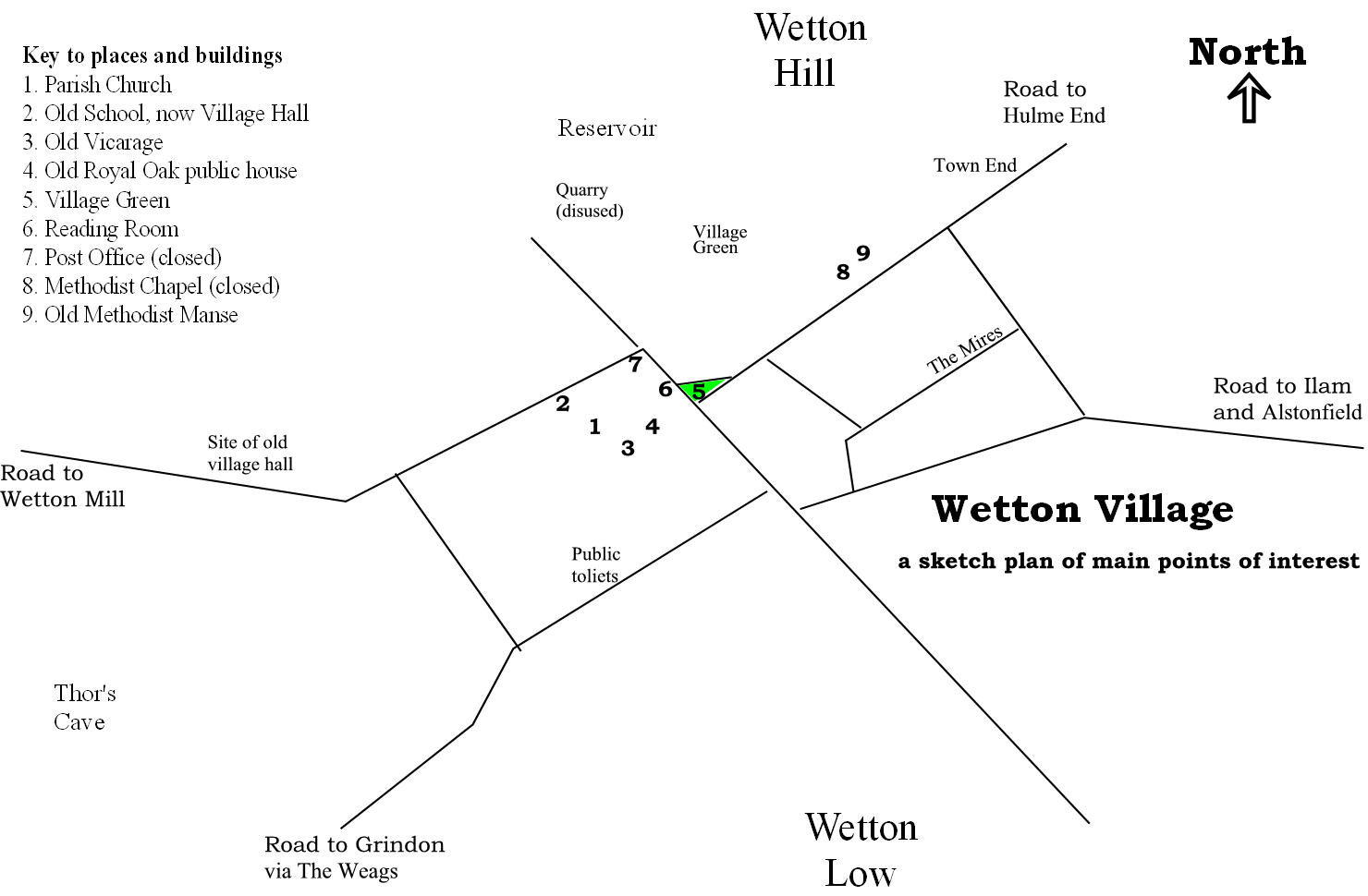 Sketch plan of Wetton, Staffordshire, to show places of interest.